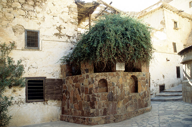 Bush of genista in place of the Burning Bush, Monastery of St Catherine, Sinai, Egypt